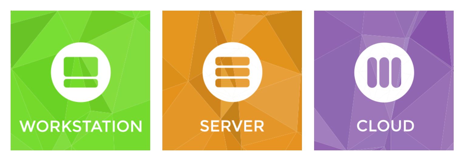 Fedora flavors